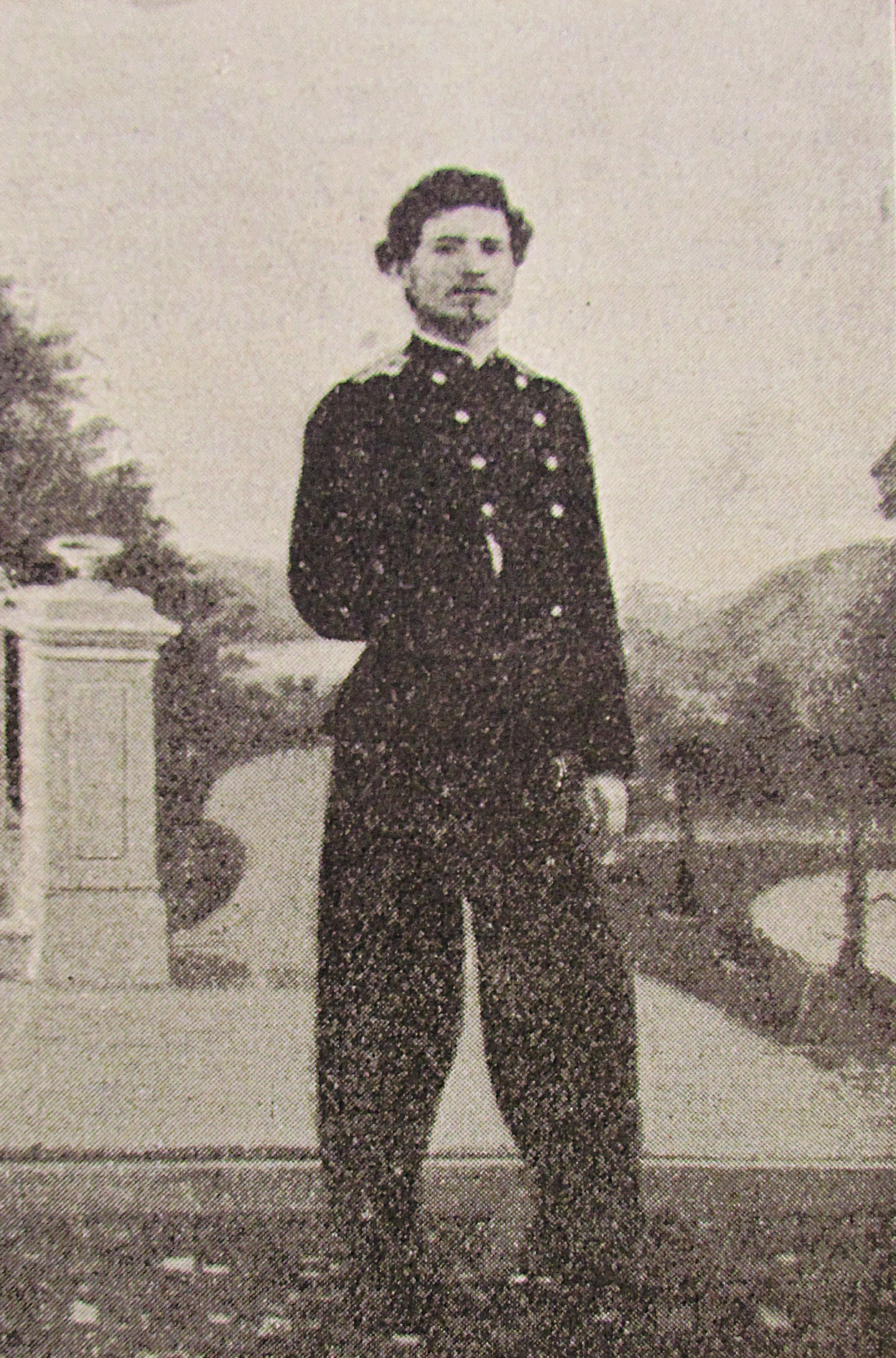 yang Radomir Putnik